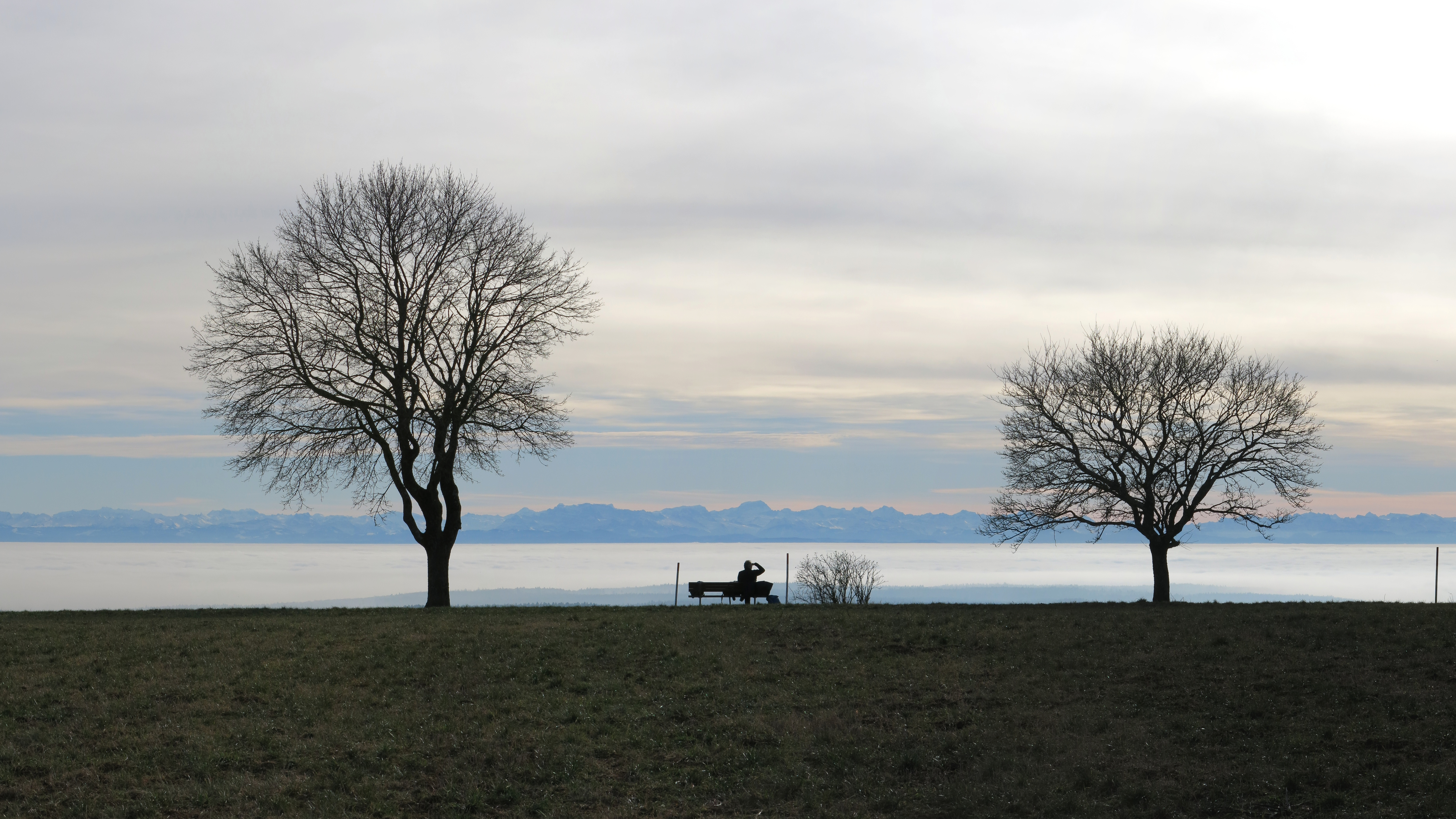 Man enjoying the view from the Witthoh with a good view of the Alps